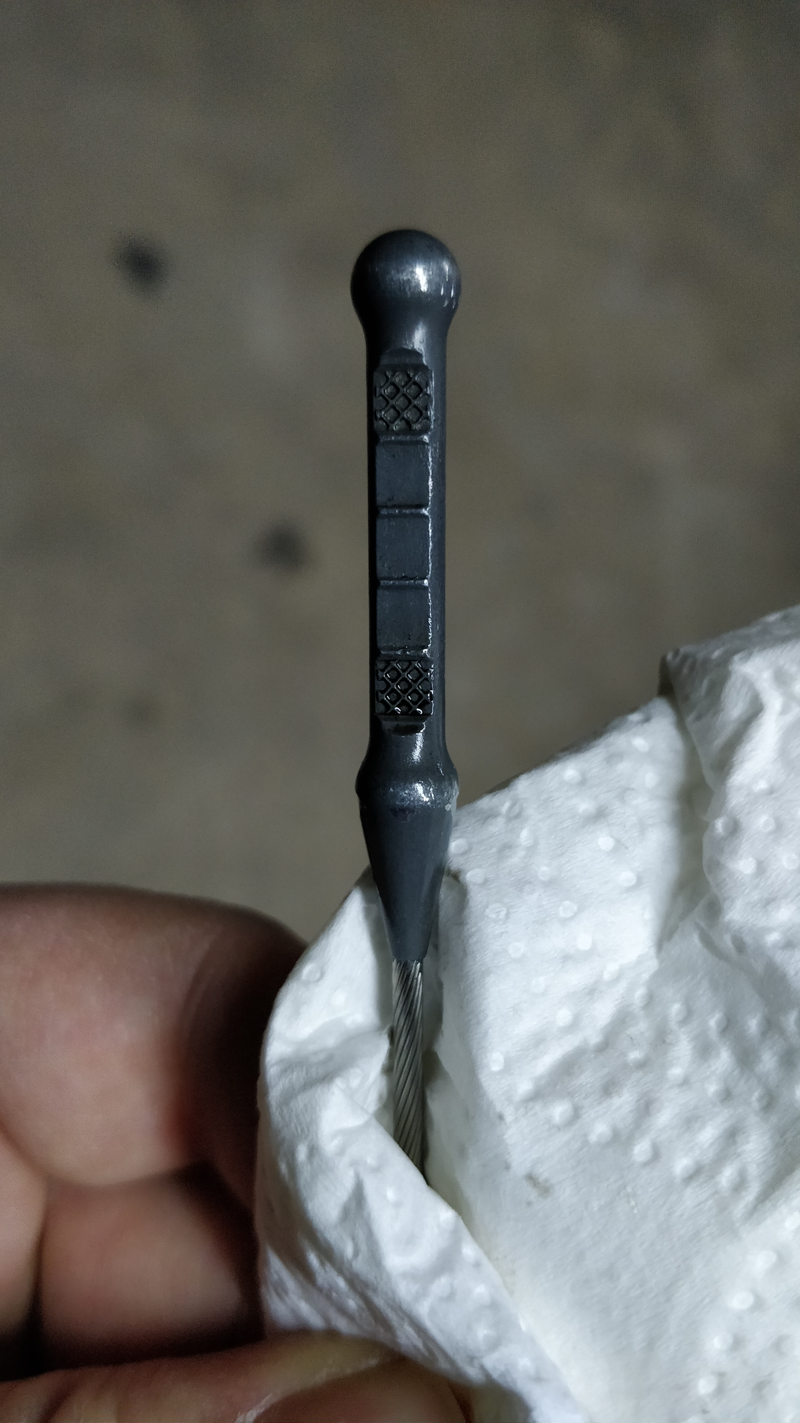 A detail from the end (wiped) of the oil dipstick of an Opel Astra K